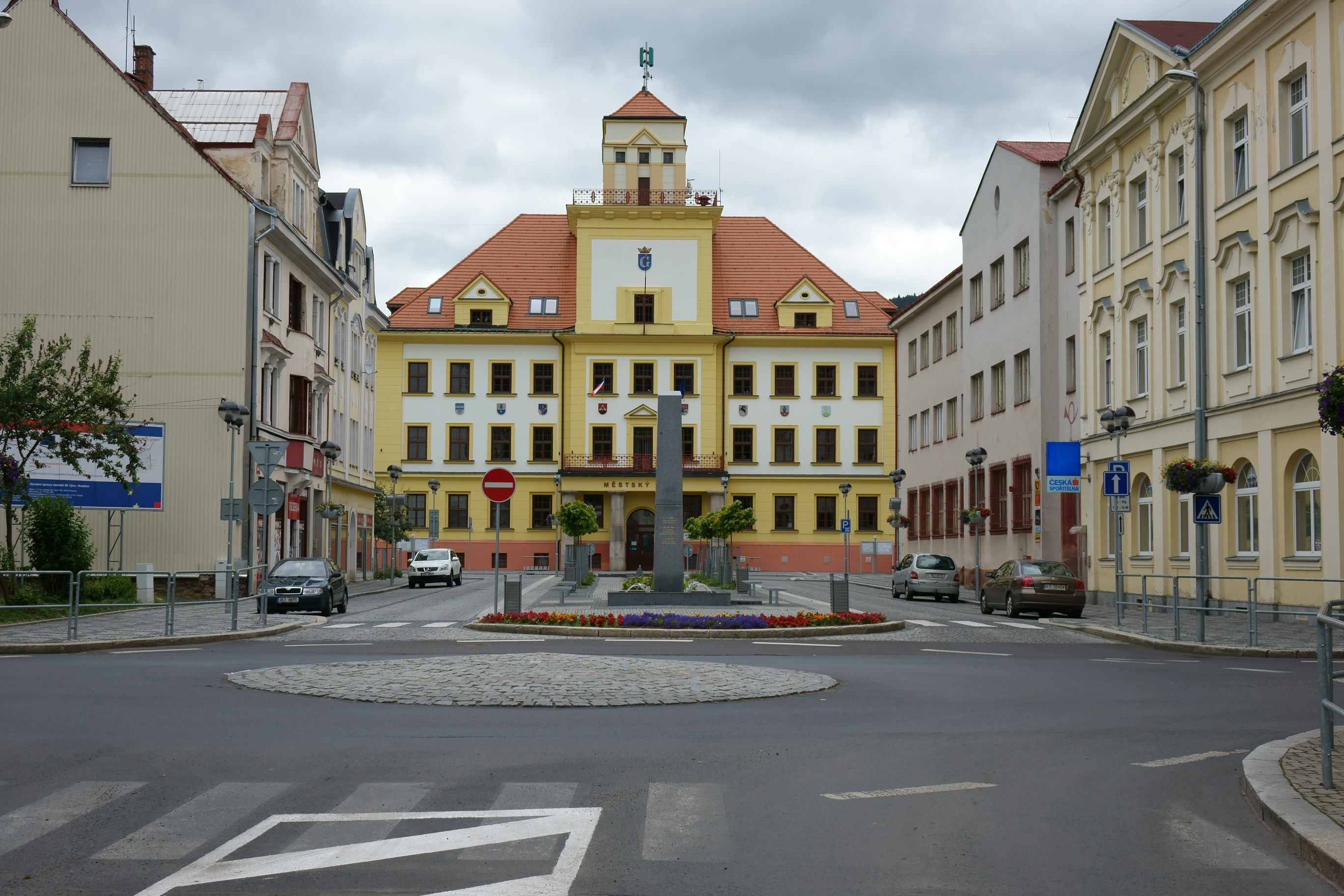 Kraslice, CZ, town hall